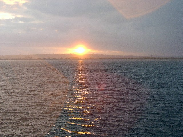 View west across the King George VI Reservoir, Stanwell, Middlesex (now Surrey), shortly before sunset